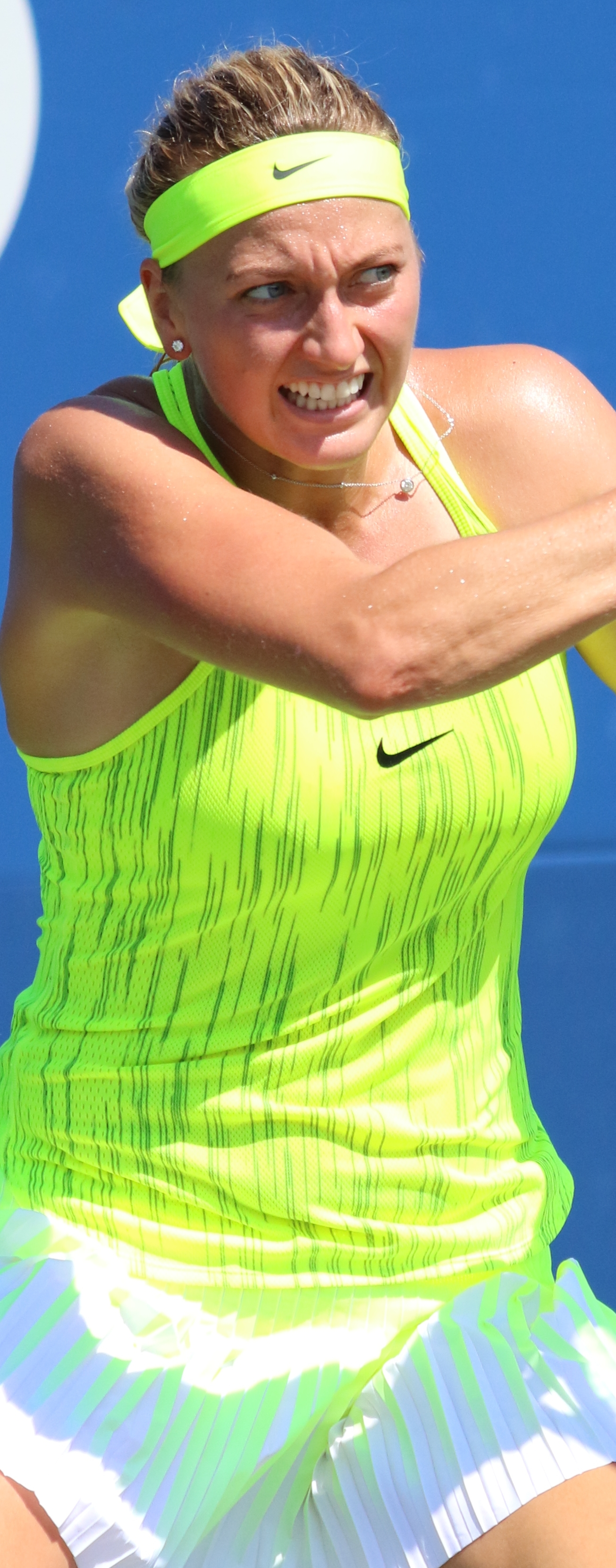 Petra Kvitová at the 2016 US Open